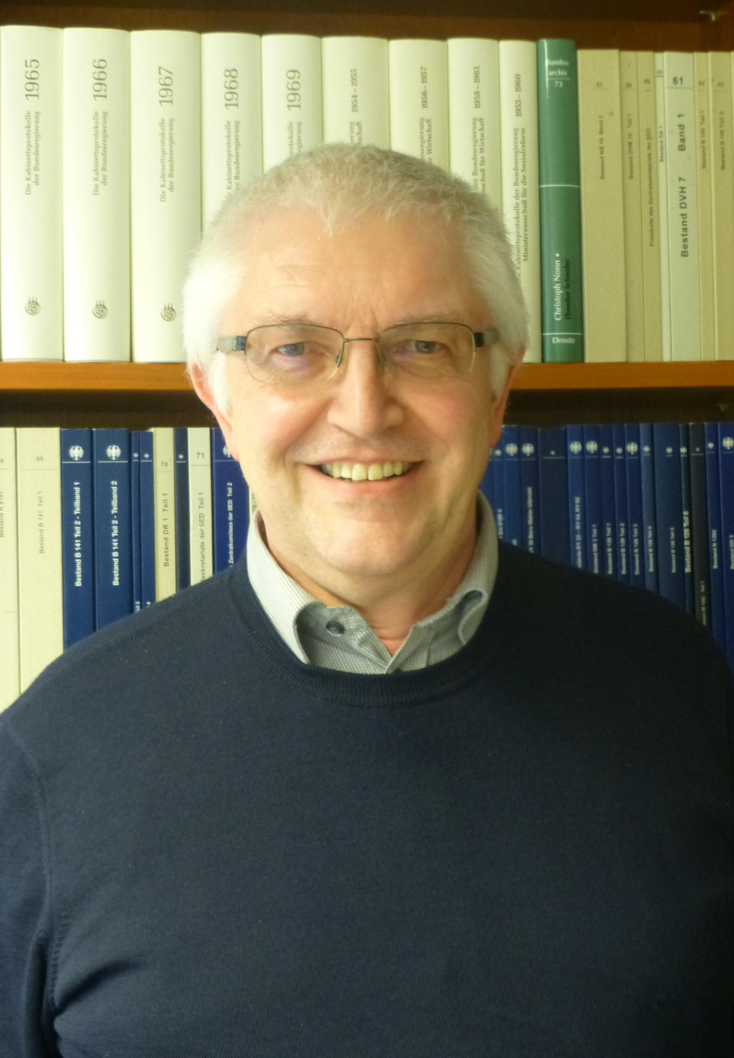 Dr. Achim Baumgarten (Bundesarchiv)